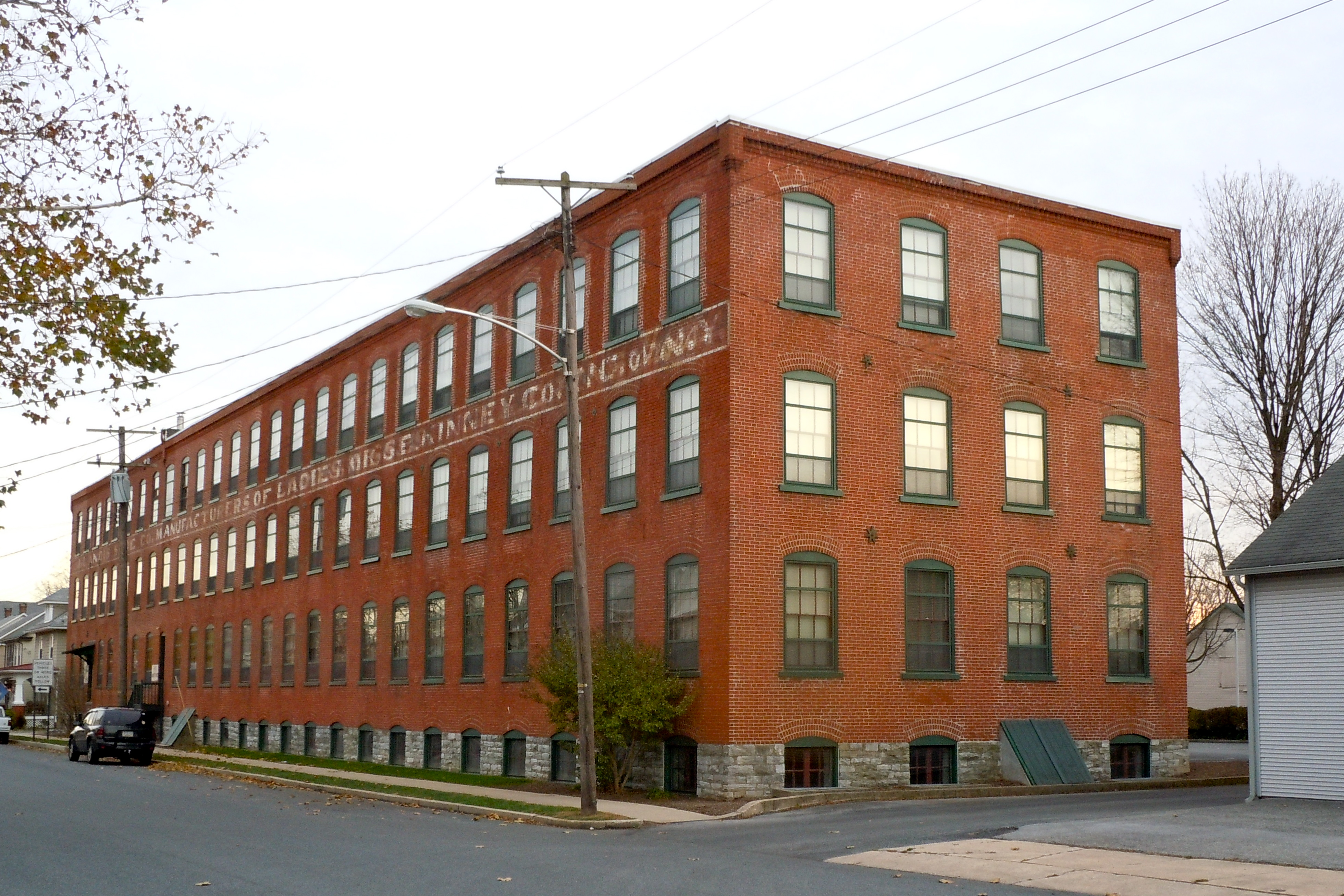 Landis Shoe Company Building on the NRHP since August 29, 1980 At North Chestnut and East Broad Streets, Palmyra, Lebanon County, Pennsylvania. Nice old factory building in a residential area. Lettering visible on building.